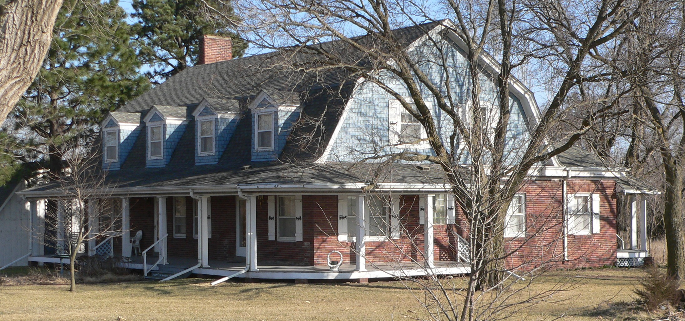 Institution for Feeble Minded Youth Farm, now Carriage House Bed and Breakfast, located at 25478 S. 23rd Road, east of Beatrice in rural Gage County, Nebraska. Residence, seen from the northwest.